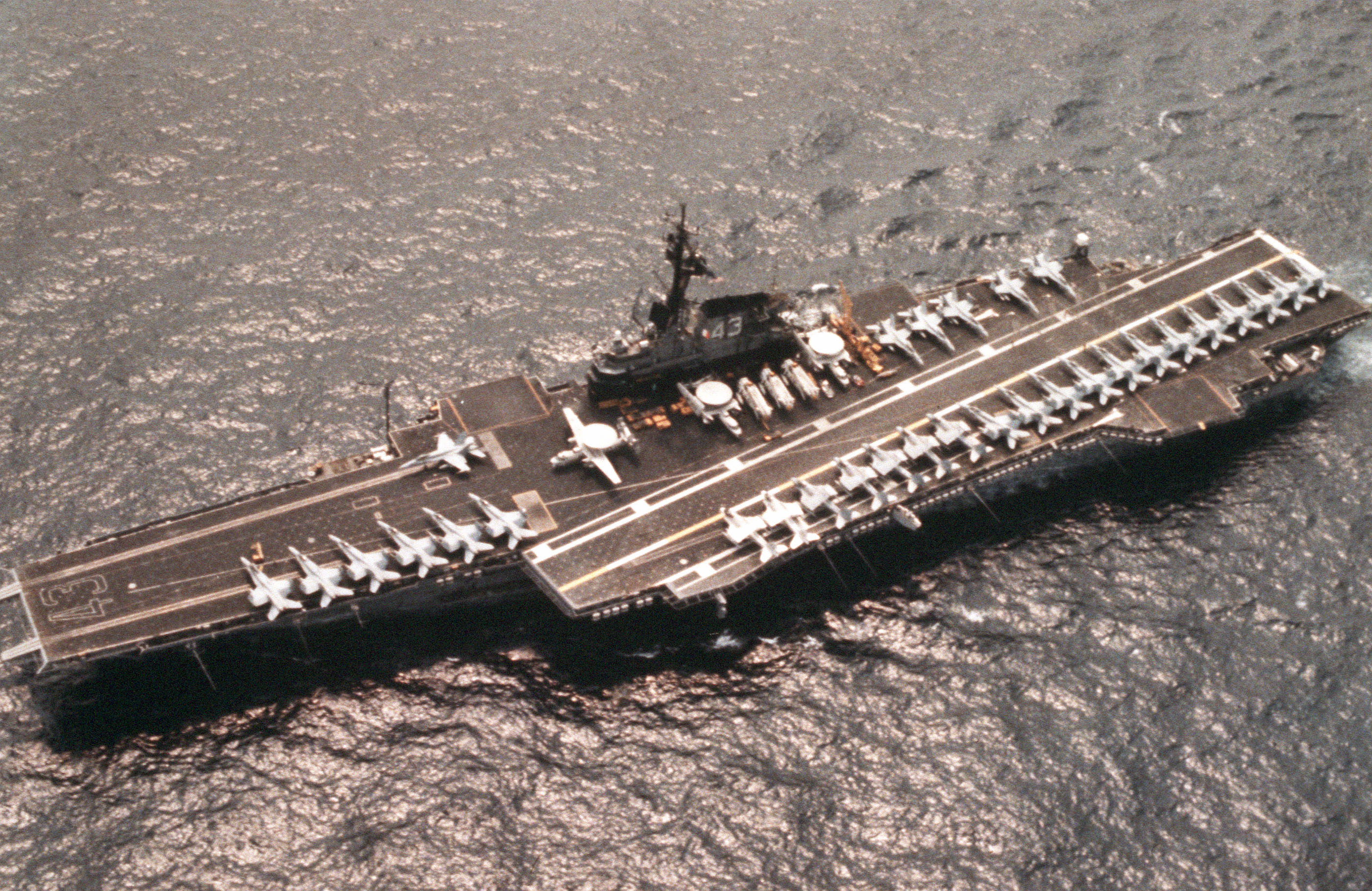 The U.S. Navy aircraft carrier USS Coral Sea (CV-43) underway. Coral Sea, with assigned Carrier Air Wing 13 (CVW-13), was deployed to the Mediterranean Sea from 1 October 1985 to 19 May 1986.